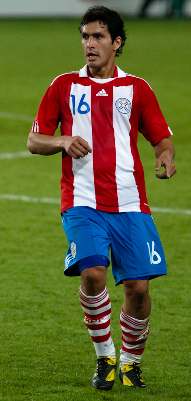 Cristian Riveros playing for the Paraguay national football team in a friendly match against Australia at the Sydney Football Stadium.